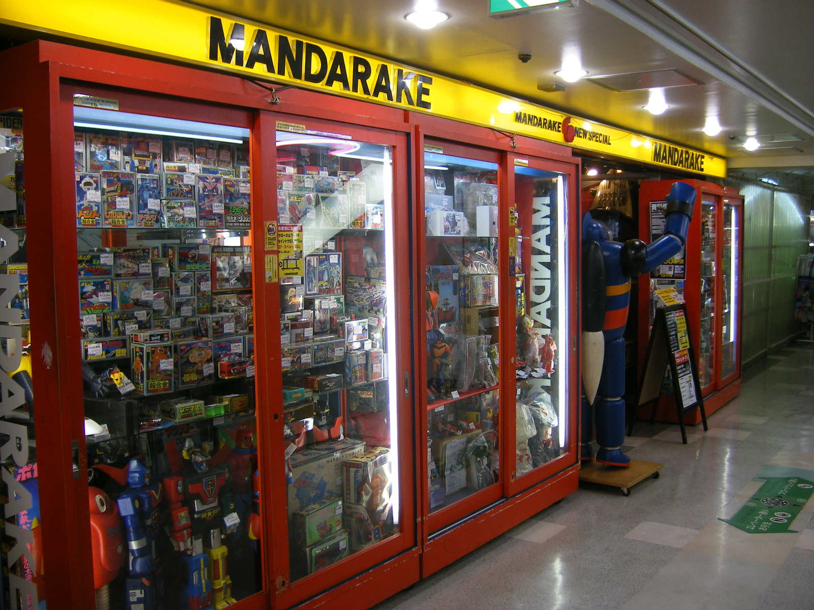 One of the many Mandarake stores in Nakano Sun Mall. This one sold hundreds of different Godzilla figures.